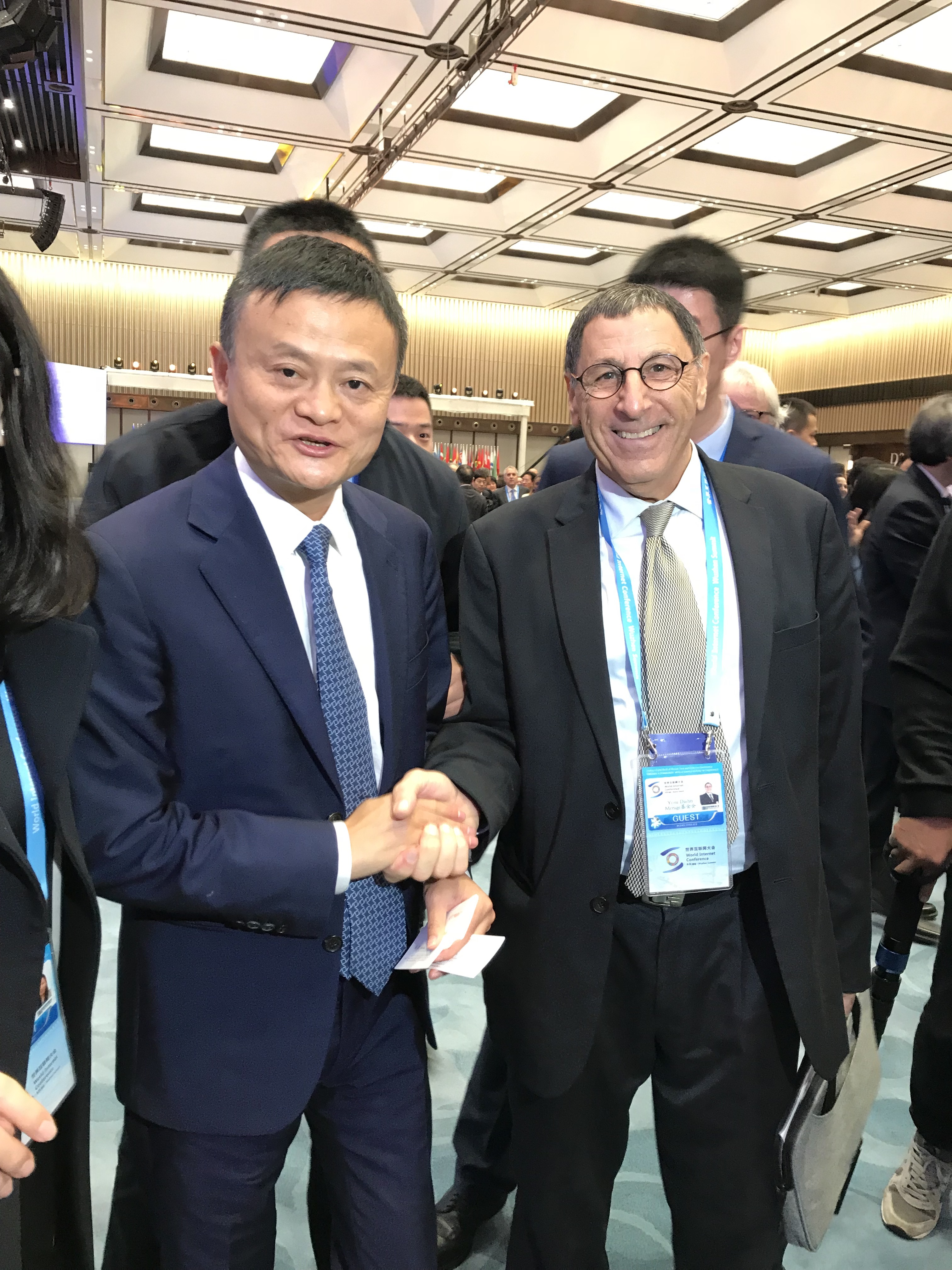 Jack Ma (the most business magnate in China) and Yossi Dashti during the World Internet Conference